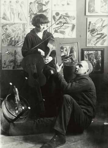 Alexander Rodchenko with his wife, Varvara Stepanova